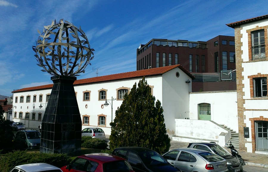 texnopoli